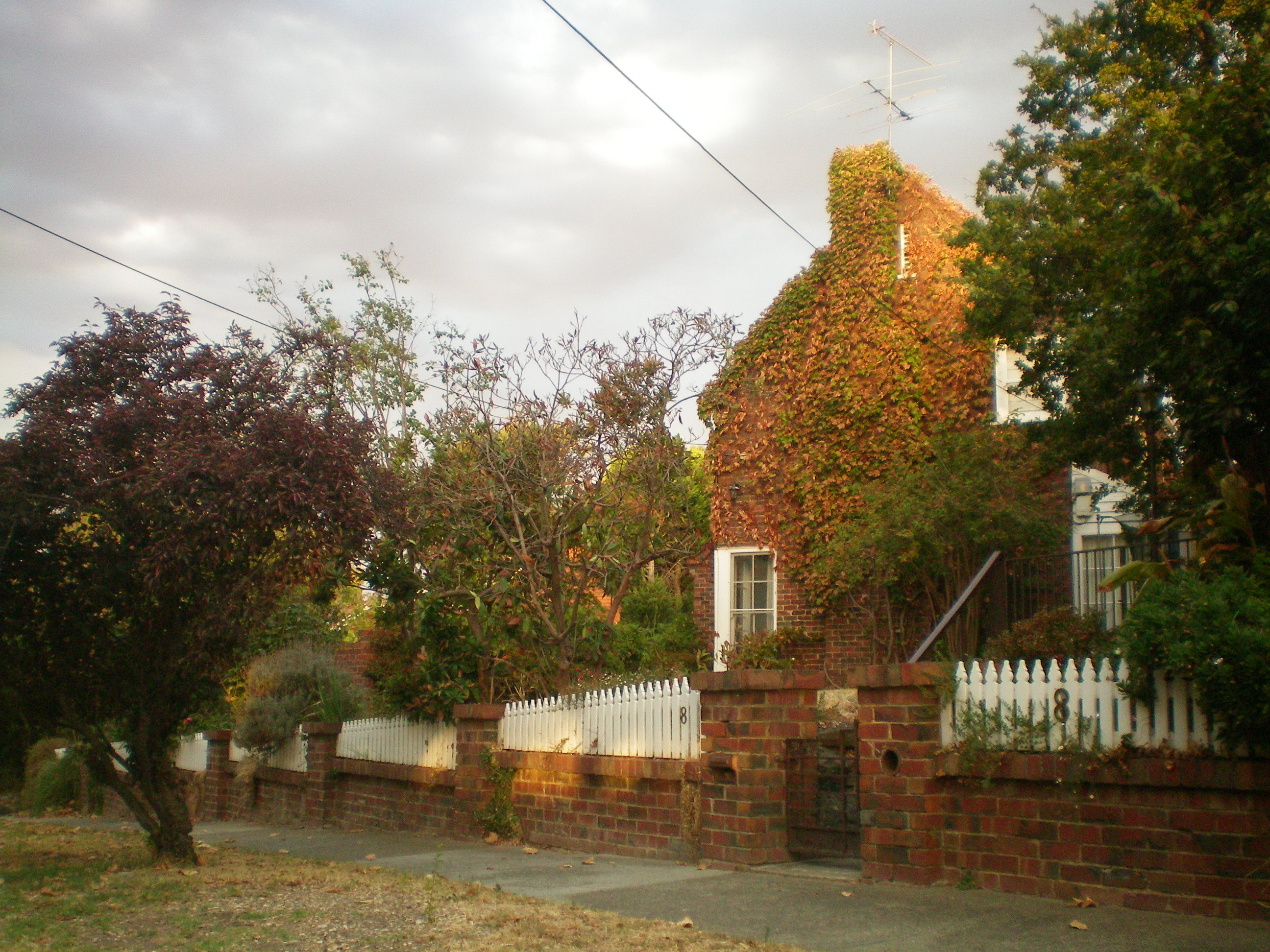 House at Eaglemont, Victoria. Note that despite the fairly typical design, position means it nevertheless rises prominently above the street.